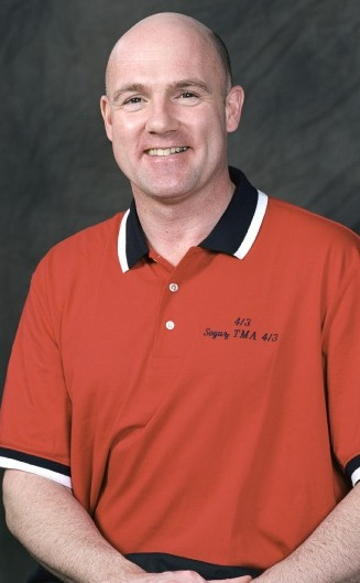 Cropped from Image:Kuipers_lowres.jpg